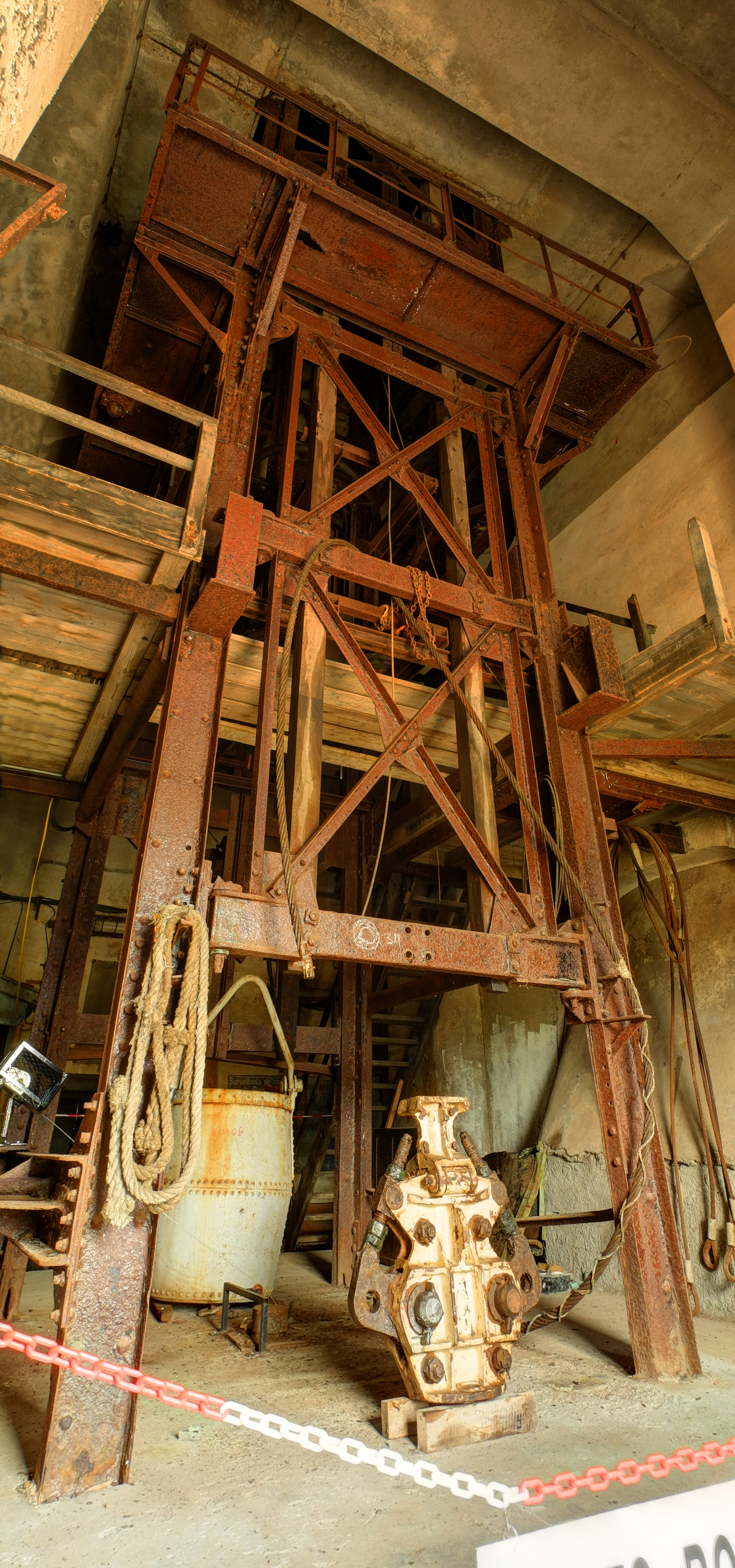 NOTE: This image is a panorama consisting of multiple frames that were merged or stitched in software. As a result, this image necessarily underwent some form of digital manipulation. These manipulations may include blending, blurring, cloning, and colour and perspective adjustments. As a result of these adjustments, the image content may be slightly different from reality at the points where multiple images were combined. This manipulation is often required due to lens, perspective, and parallax distortions. Puits Rodolphe : recette du puits Rodolphe I (HDR).